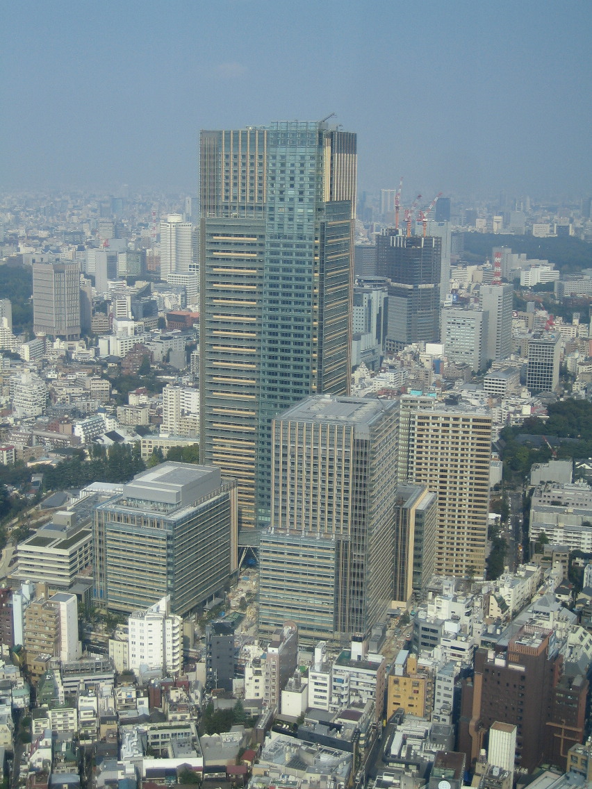 Tokyo Midtown Project overview.